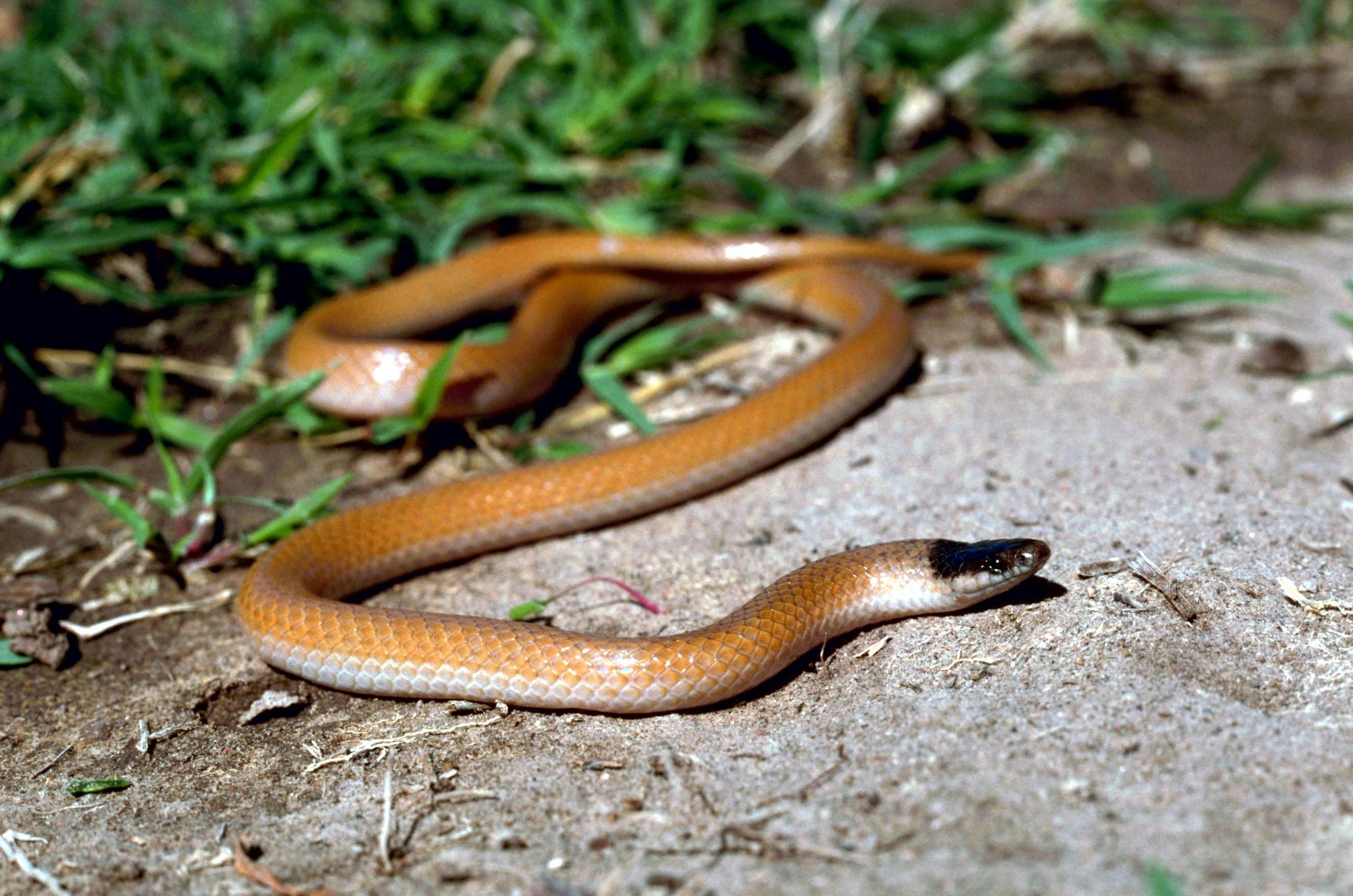 Image title: Plains black headed snake Image from Public domain images website